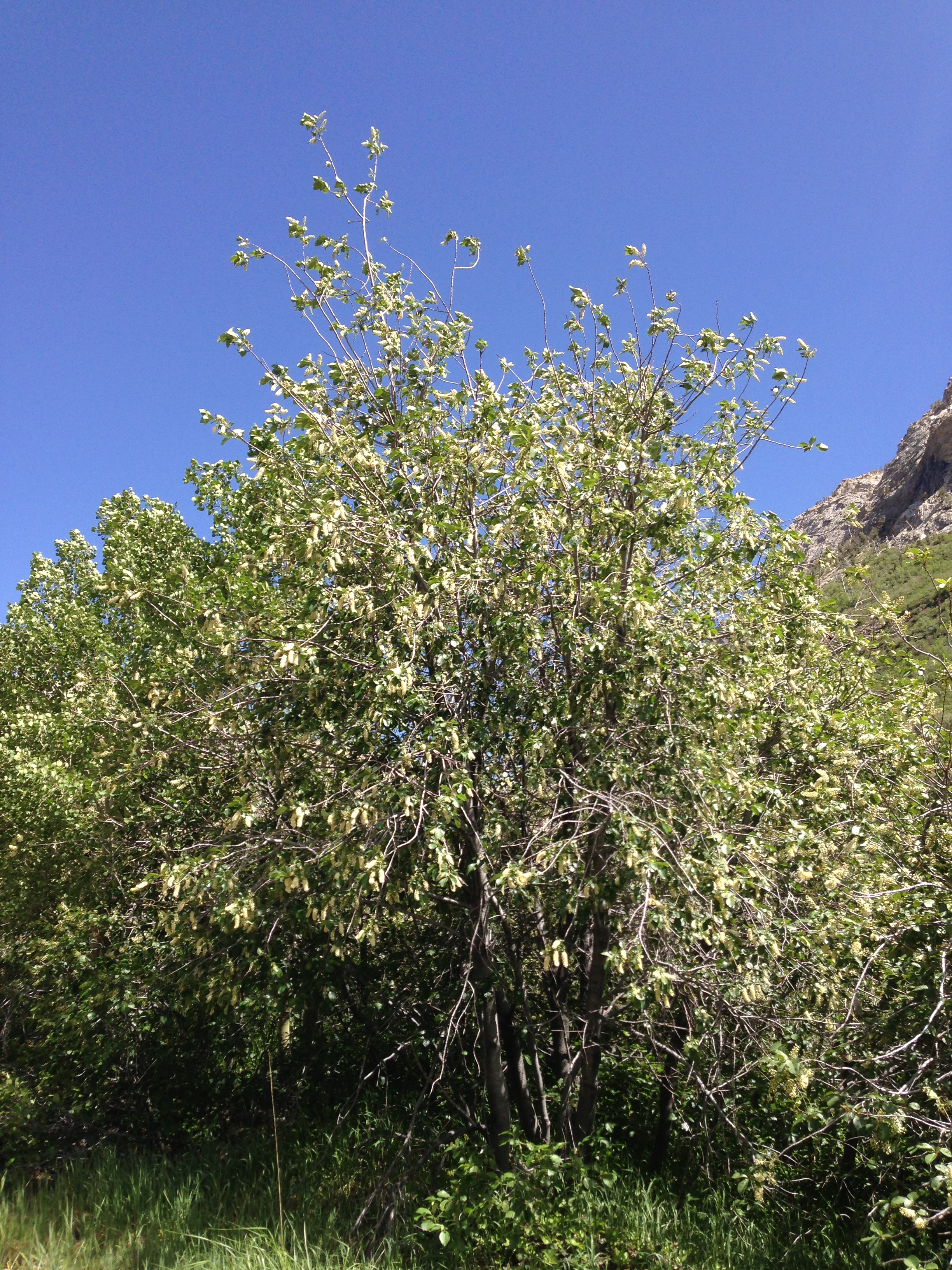 Choke Cherries blooming along Lamoille Canyon Road in Lamoille Canyon, Nevada